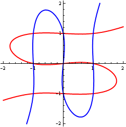 Two cubic curves with nine intersection points